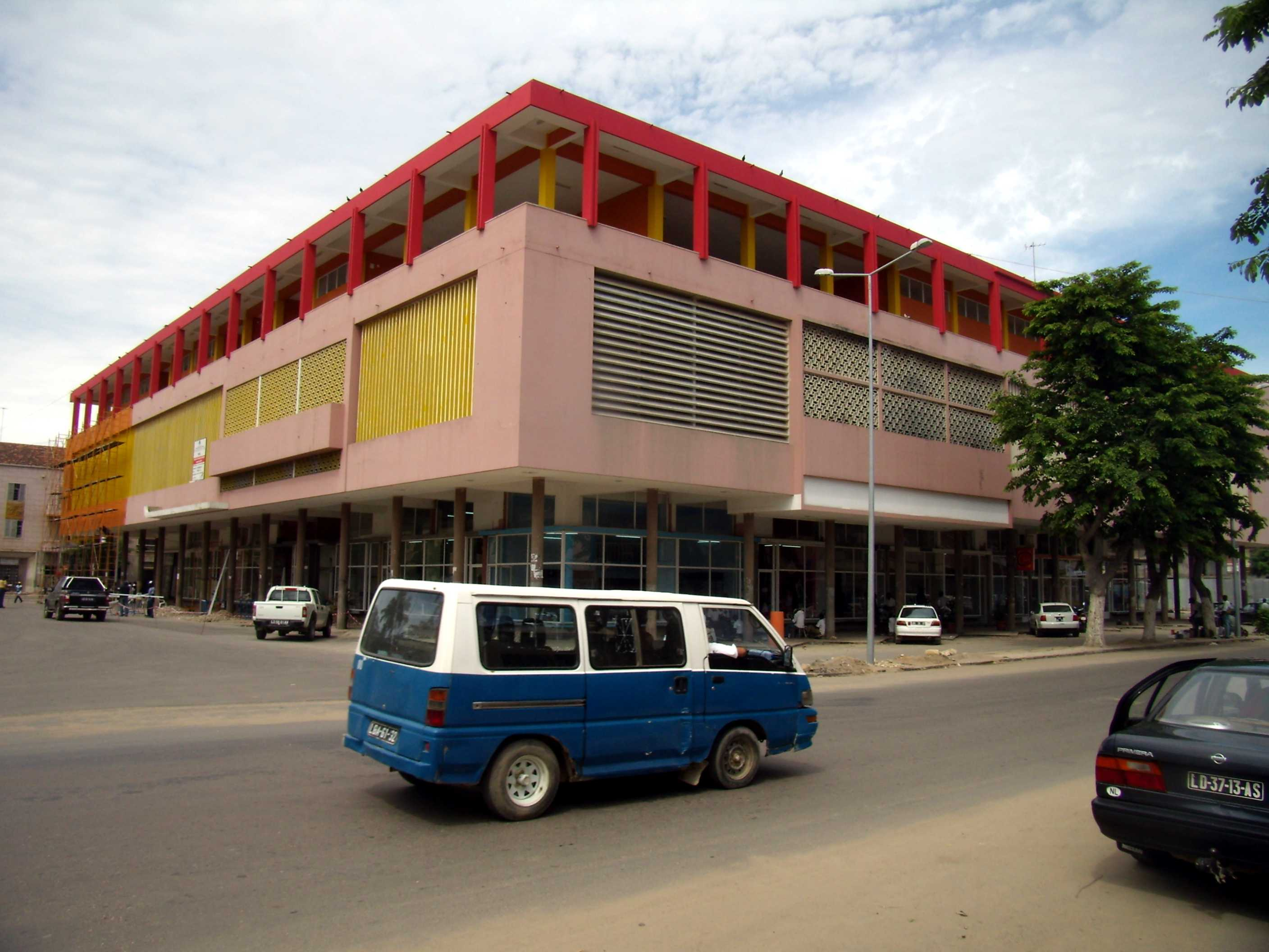 Municipal Market, Lobito, Angola